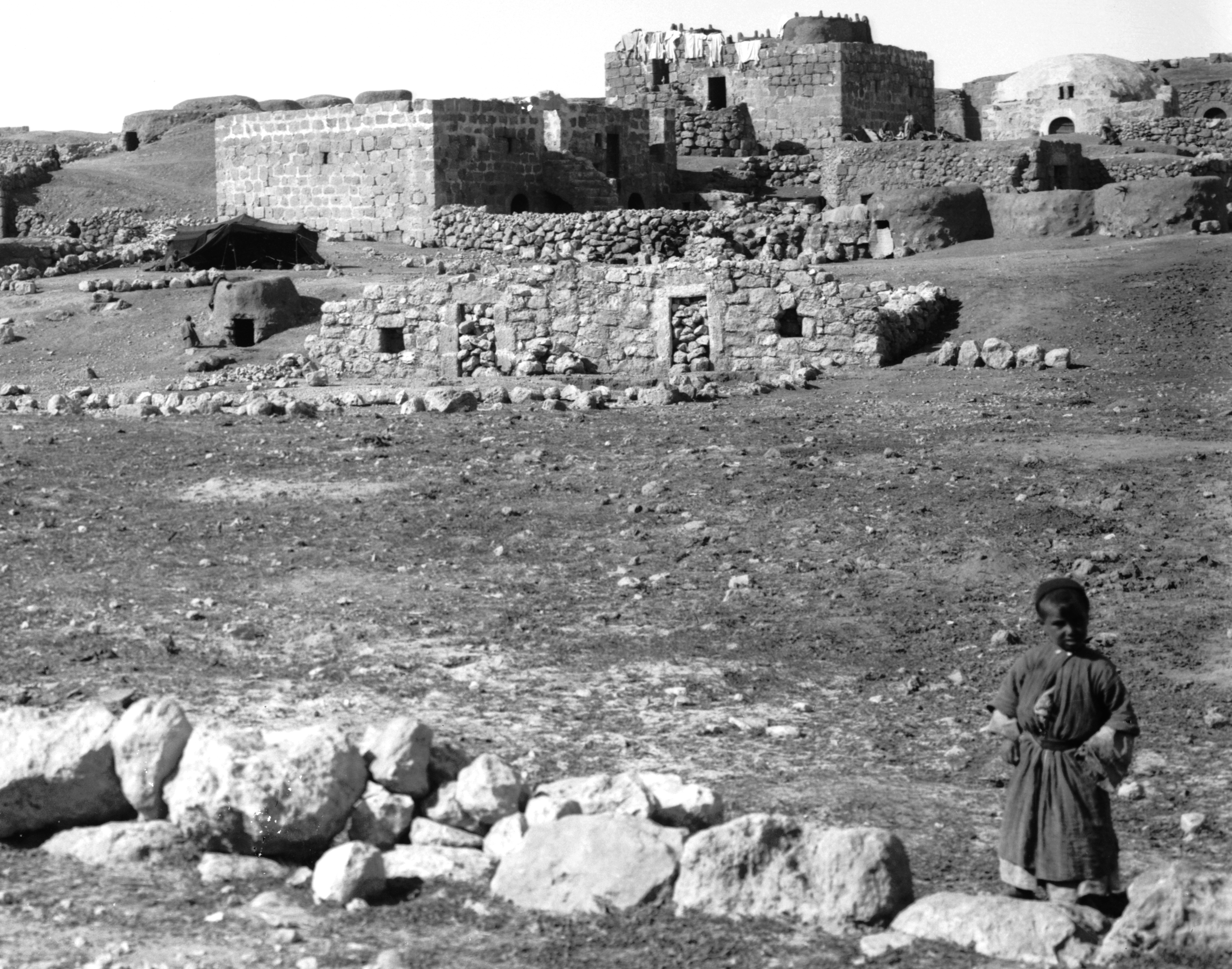 Southern Palestine. Dahariyeh village, Debir.